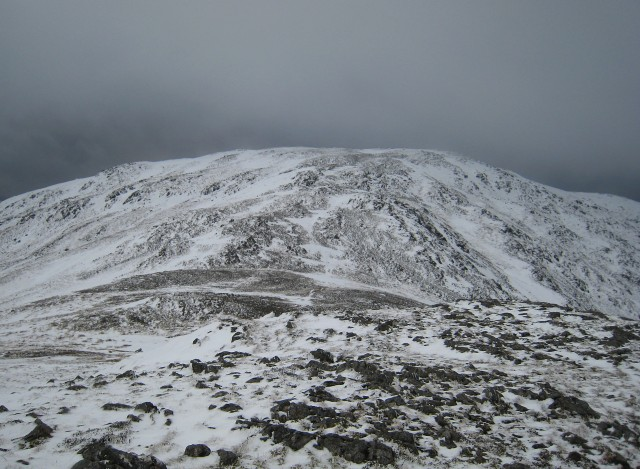 Carn Dearg Looking up the north east ridge of Carn Dearg